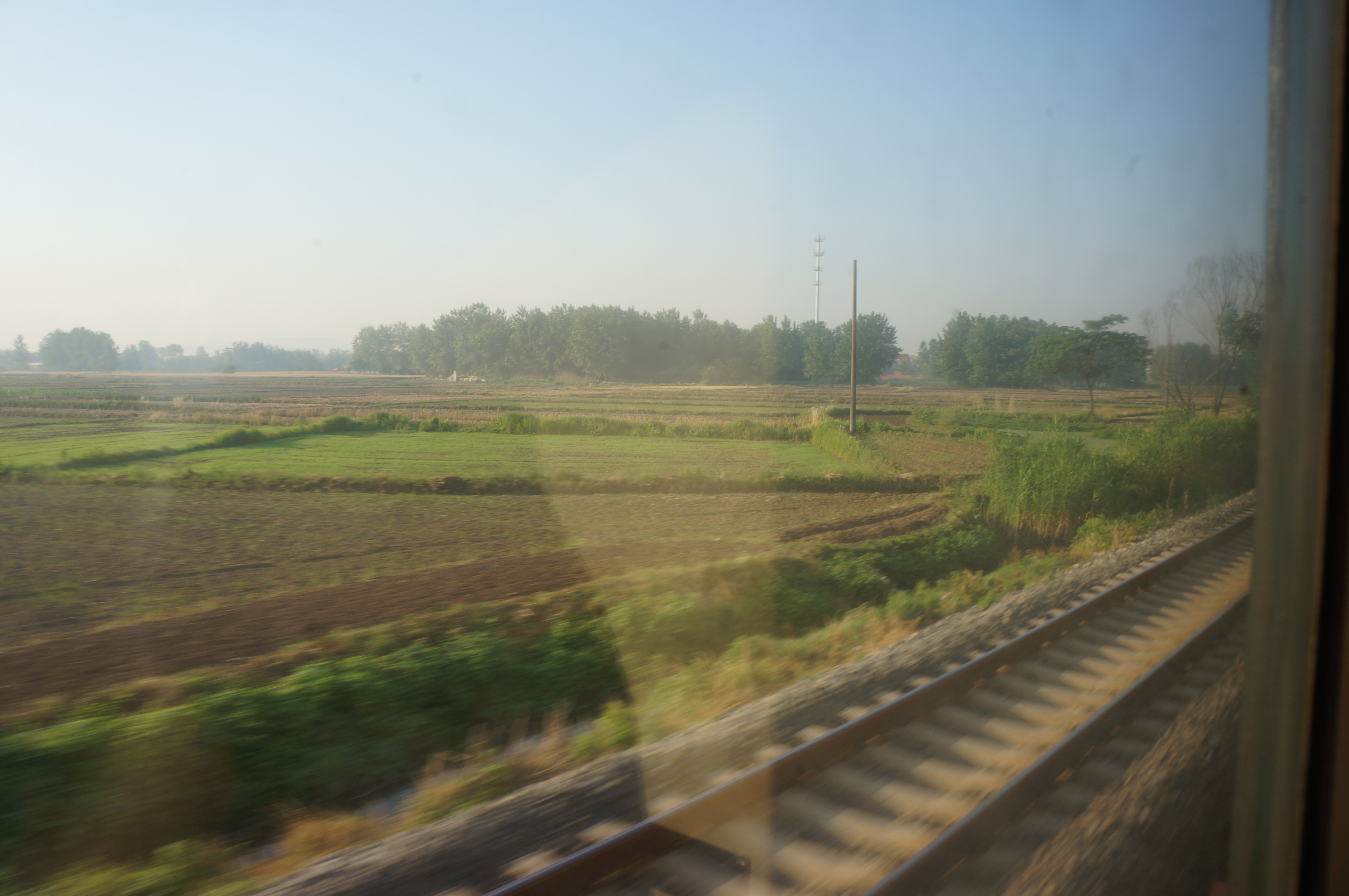 201705 Track at Liufu Station